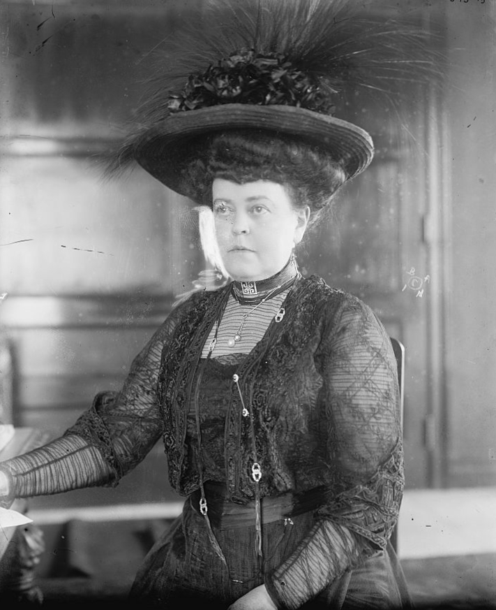 Mrs. O.H.P. Belmont